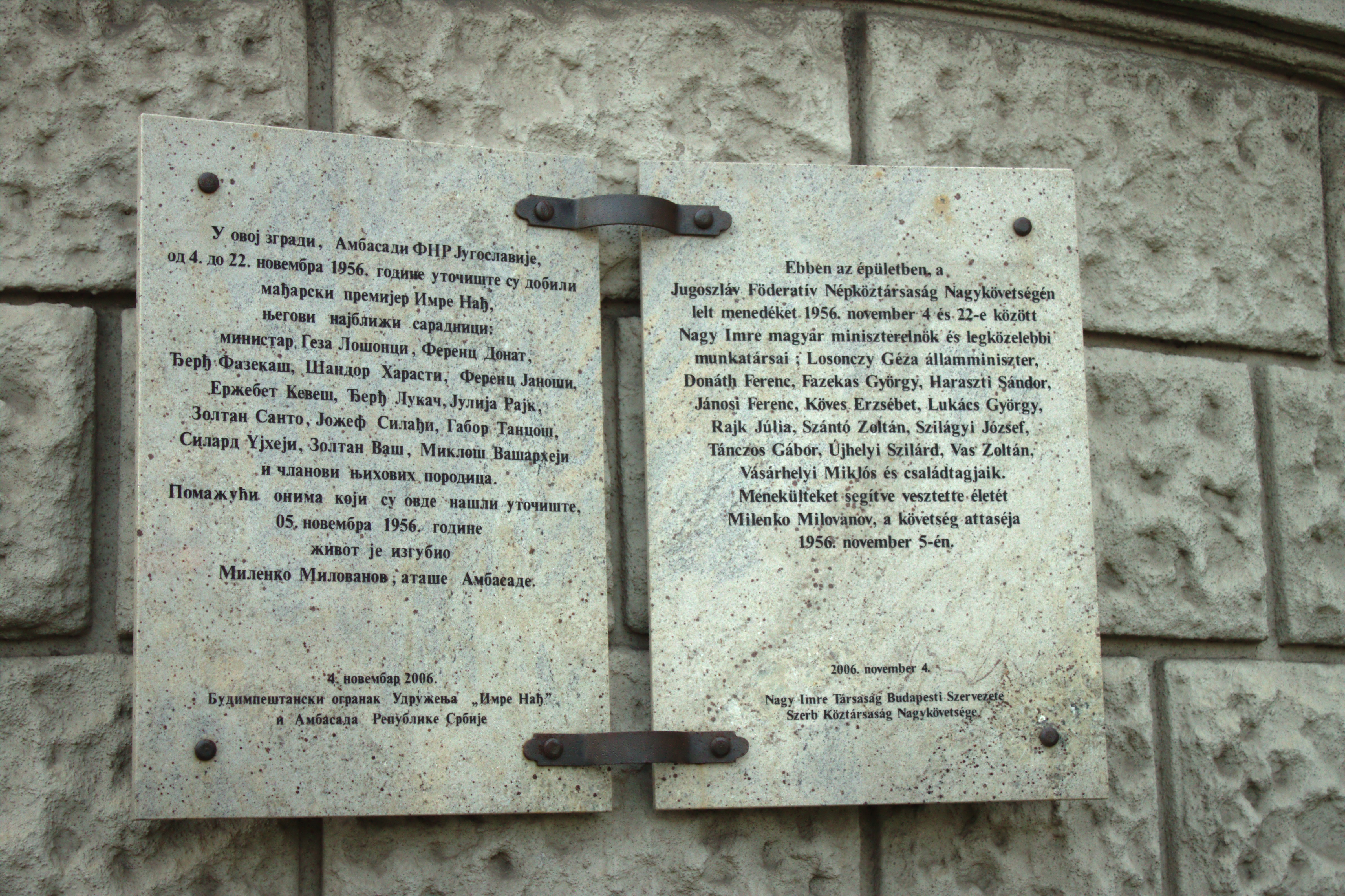 Memorial plaque at the building of serbian embassy in Budapest, Hungary. The text is both in serbian in hungarian. It commemorates the stay of hungarian prime minister Imré Nagy in the area of embassy during 1956 uprising. It was not only him; there were also the closest aides and families of all politicians